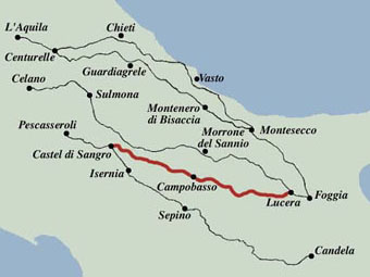 Lucera - Castel di Sangro sheep-track